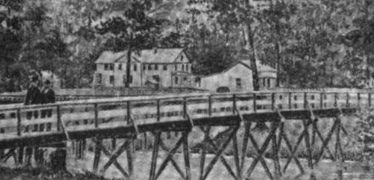 Almeda Gardner Industrial School in Moorhead, Mississippi